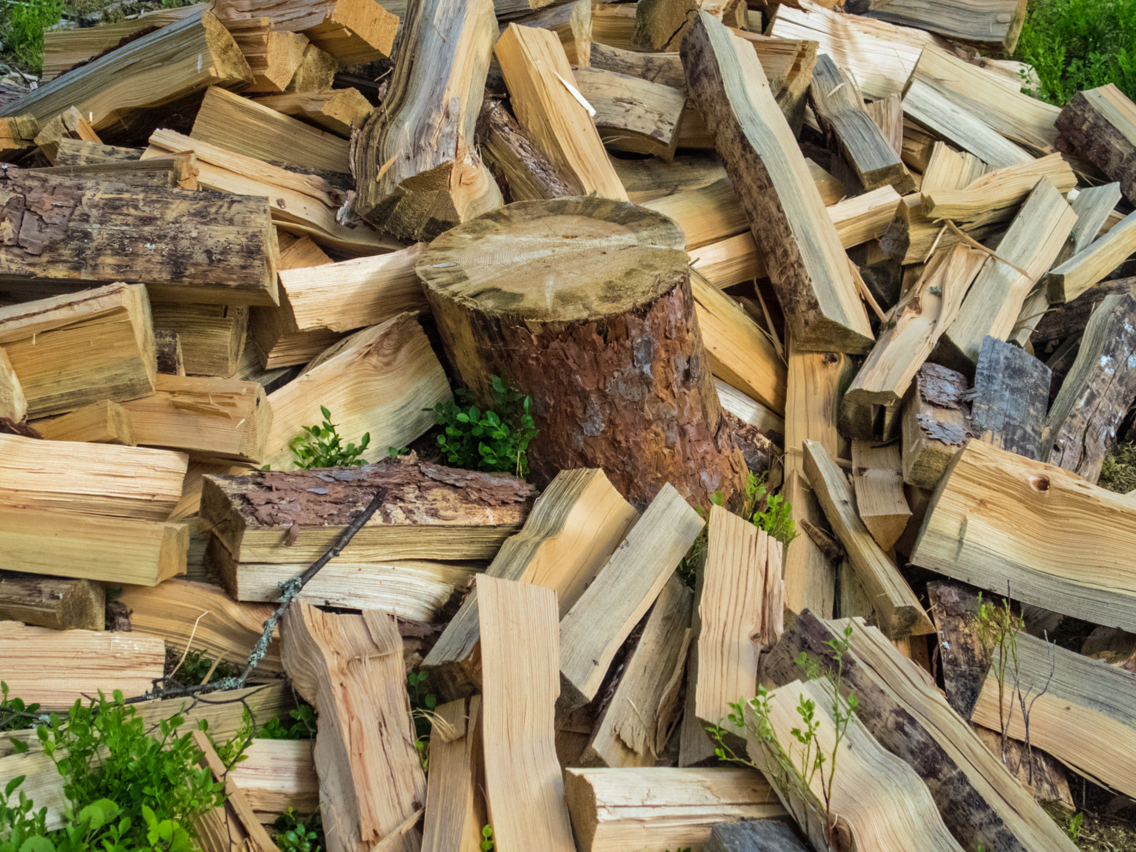 Chopped firewood scattered around.